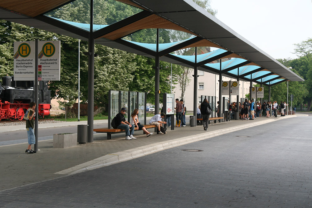 A bus stop on the main railway station of Ingolstadt, Germany